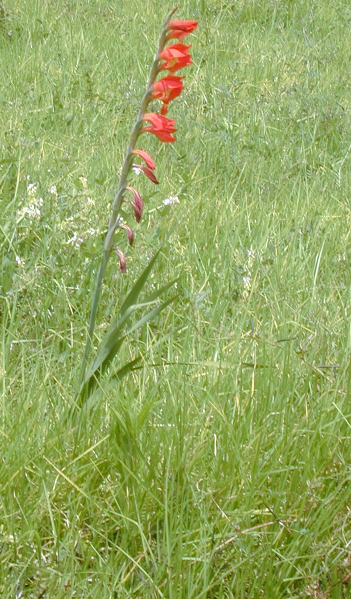 Gladiolus dalenii (flowers). Location: Maui, Kula